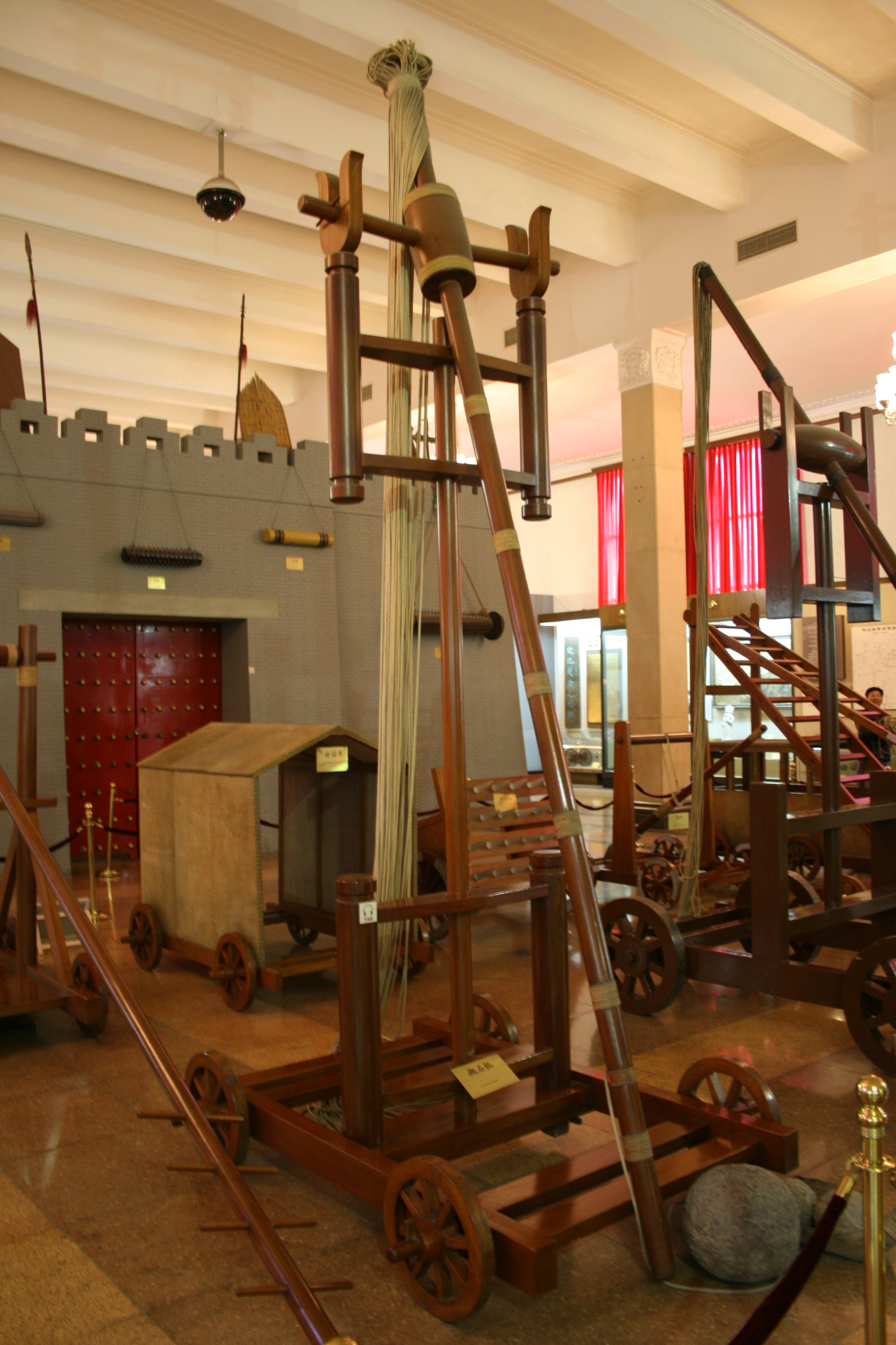 Military Museum: Ancient Weapons